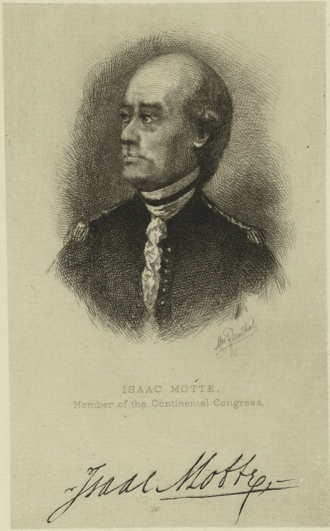 Taken from - due to its age it's in the public domain